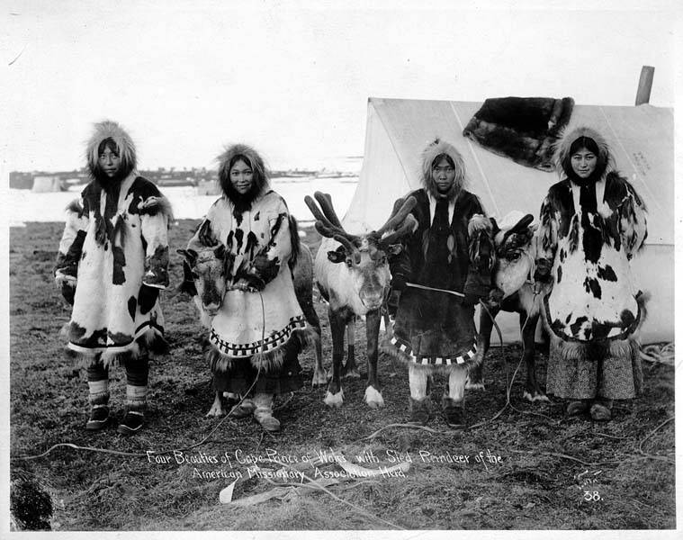 Caption on image: Four Beauties of Cape Prince of Wales with sled Reindeer of the American Missionary Association Herd. Nowell, 38 Subjects (LCTGM): Eskimos--Women--Alaska--Prince of Wales, Cape; Eskimos--Clothing & dress--Alaska--Prince of Wales, Cape; Fur garments; Reindeer; Tents--Alaska--Prince of Wales, Cape; Group portraits Subjects (LCSH): Parkas--Alaska--Prince of Wales, Cape